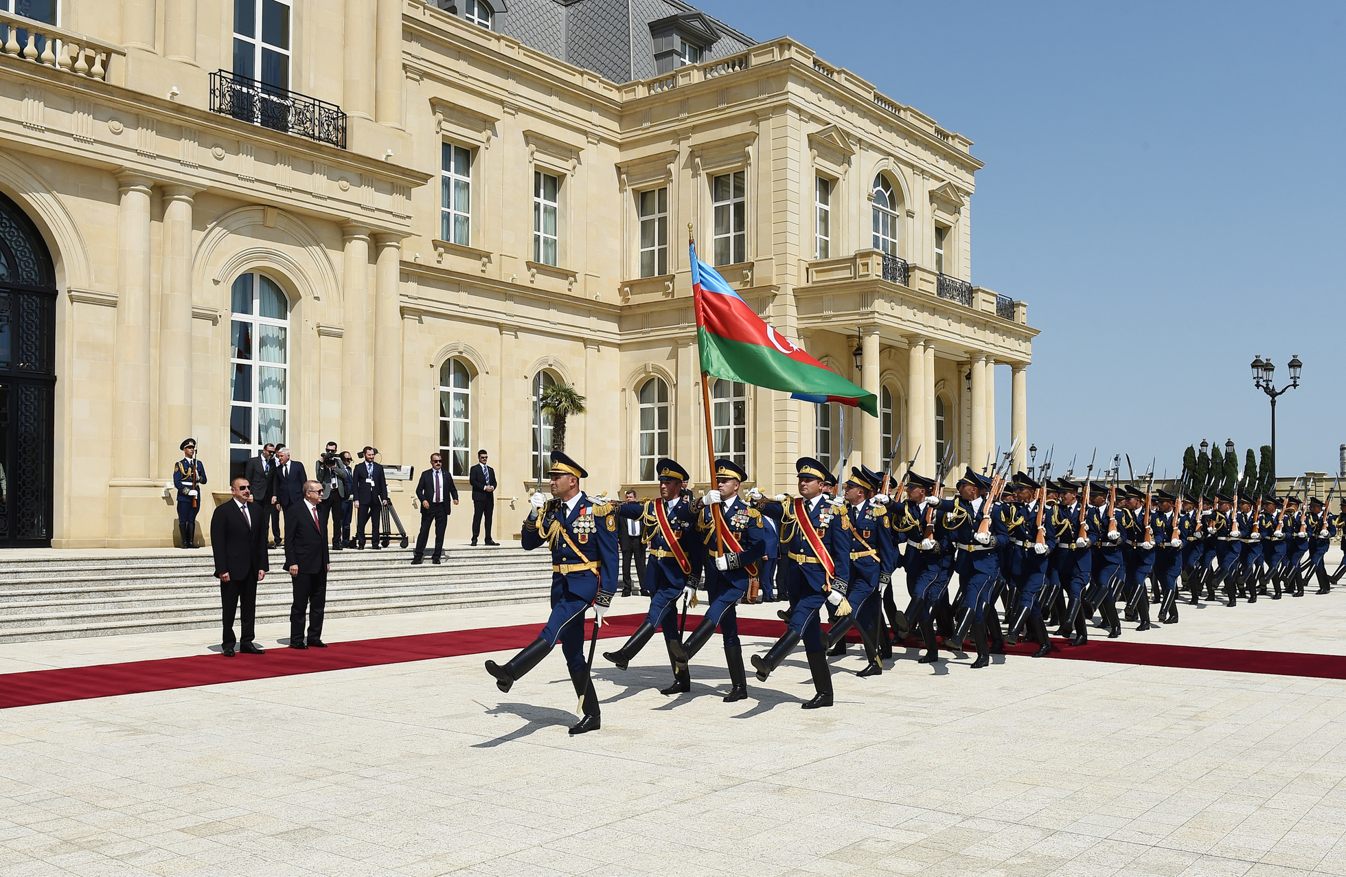 Official welcome ceremony was held for Turkish President Recep Tayyip Erdoğan, September 2018